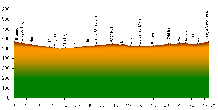 elevation profile of the railway track Brasov-Targu Secuiesc